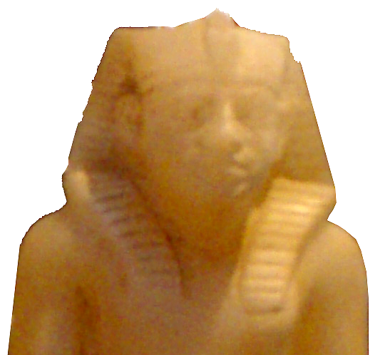 Close-up of child image Pepi II. Dynasty 6, circa 2288-2224/2194 B.C.